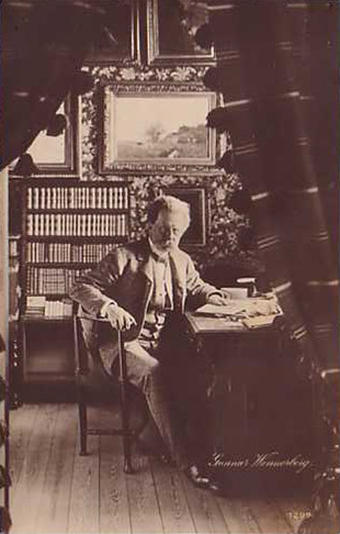 Swedish politician, author, poet and translator Gunnar Wennerberg (1817--1901).